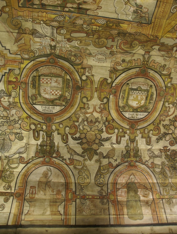 St Mary's Church, Grandtully, Perth and Kinross, Scotland - detail: two heraldic panels and two panels depicting allegories